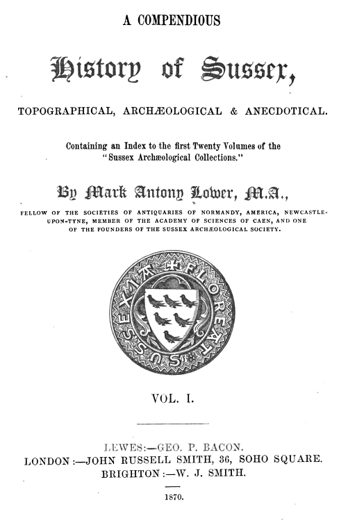 Title page of "A Compendious History of Sussex, Topographical, Archaeological & Anecdotical," by Mark Antony Lower, Vol. I, published by George B. Bacon, Lewes, John Russell Smith, London, W.J. Smith, Brighton, 1870.